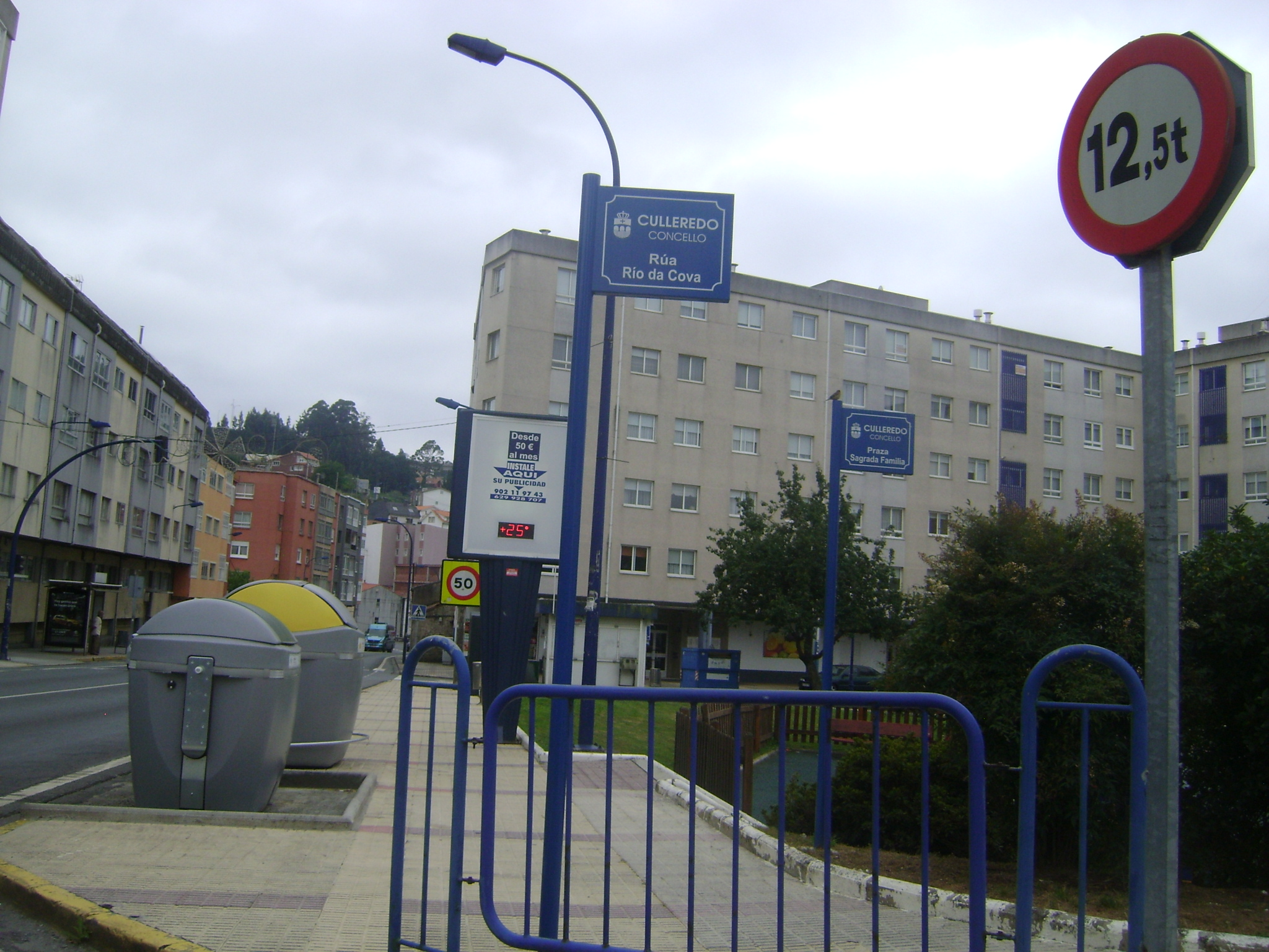 Vilaboa, Culleredo.